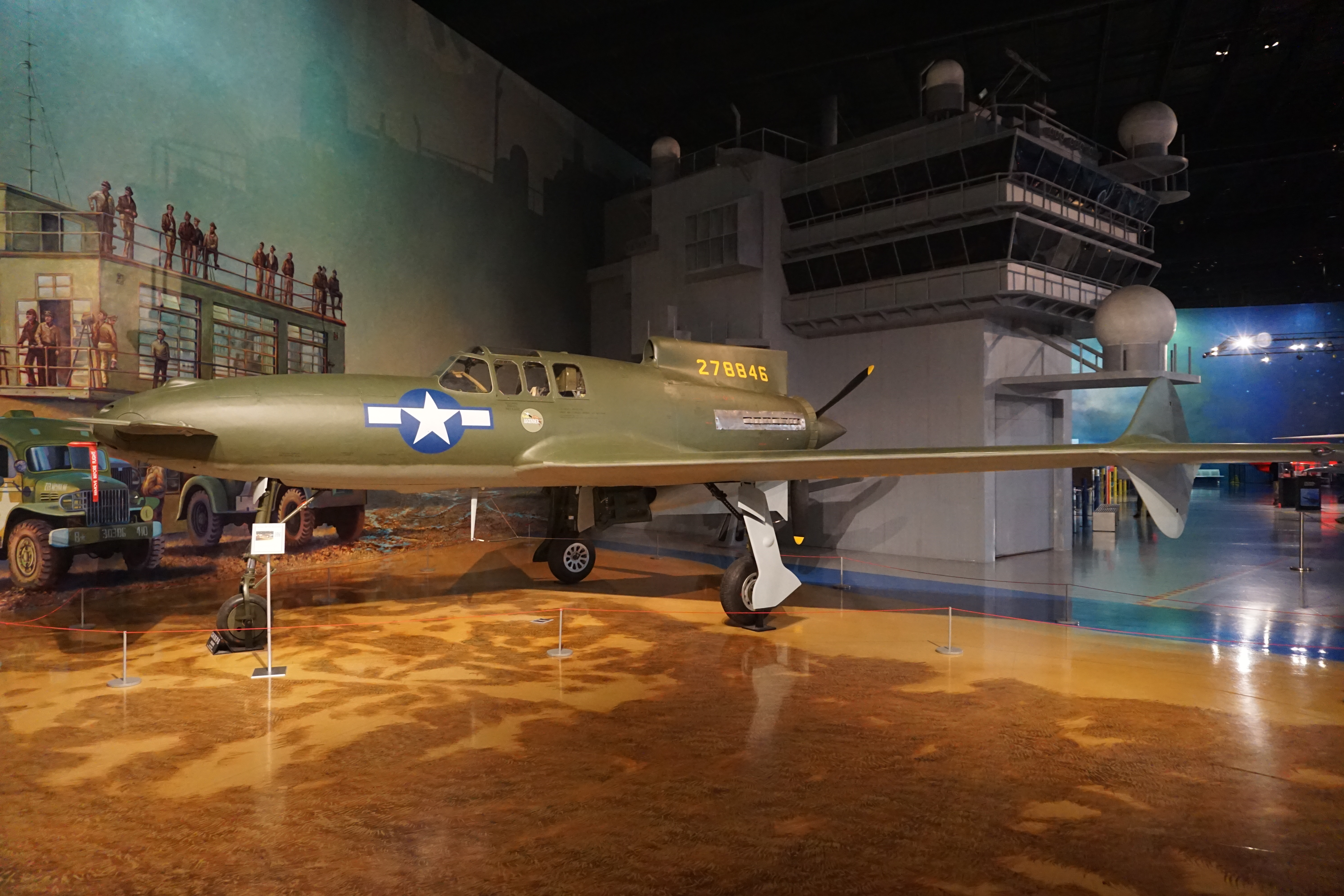 A Curtiss XP-55 Ascender on display at the Air Zoo at Kalamazoo/Battle Creek International Airport in Portage, Michigan (United States).